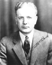 David Worth Clark, US senator from Idaho